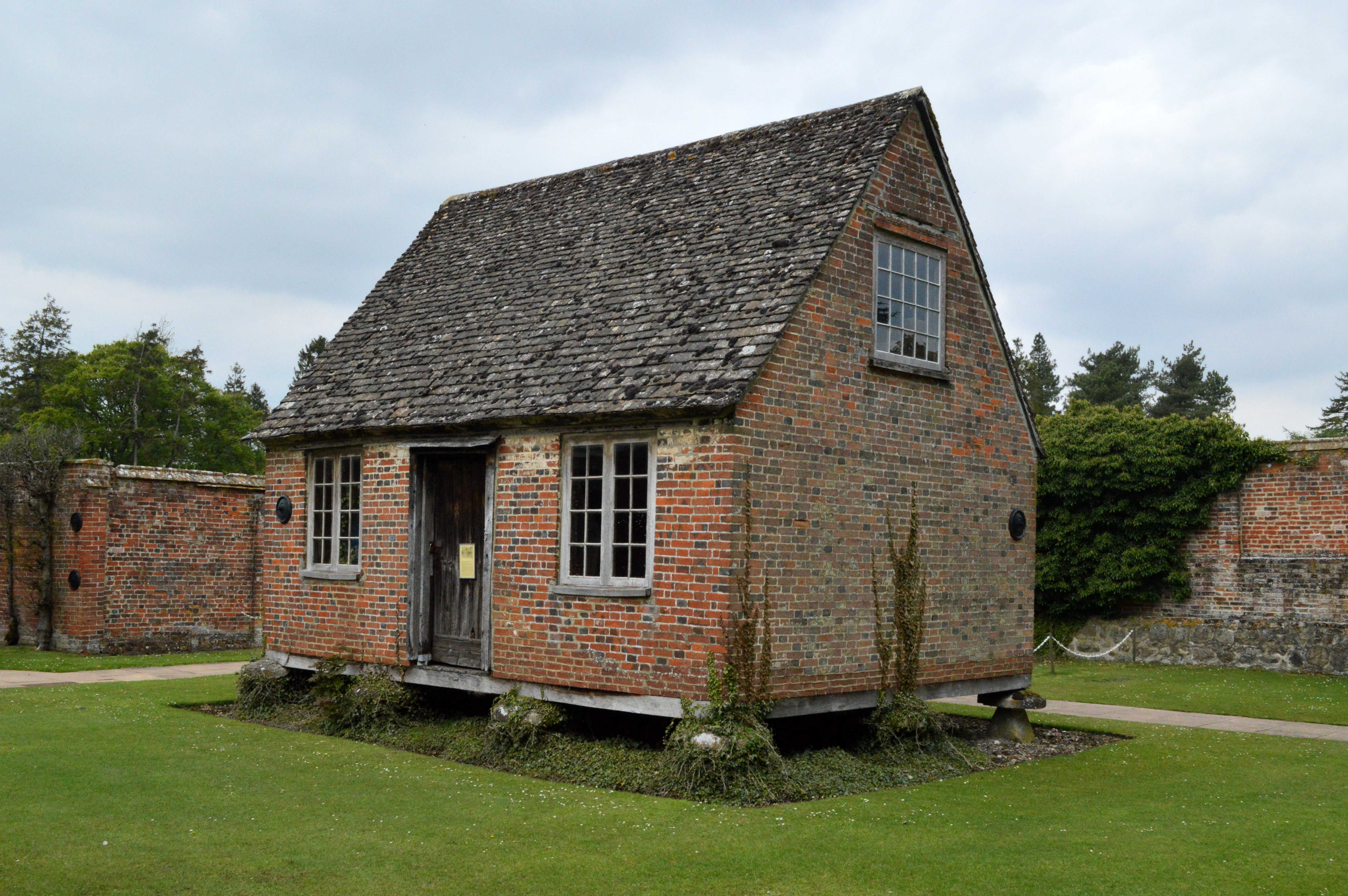 Burderop Park granary. The granary is supportrd on staddle stones to deter vermin. The grade II listed building description describes it as: Early C18. Light timbered, half timber granary on staddle stones. Stone tile roof, plain tiles to rear. Two windows flanking central door, 2 light wide mullion (wood) casements. The kitchen court walls behind are also grade II listed.